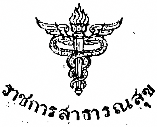 Emblem of Ministry of Public Health of the Kingdom of Thailand, as appeared on the Royal Gazette in 1942.